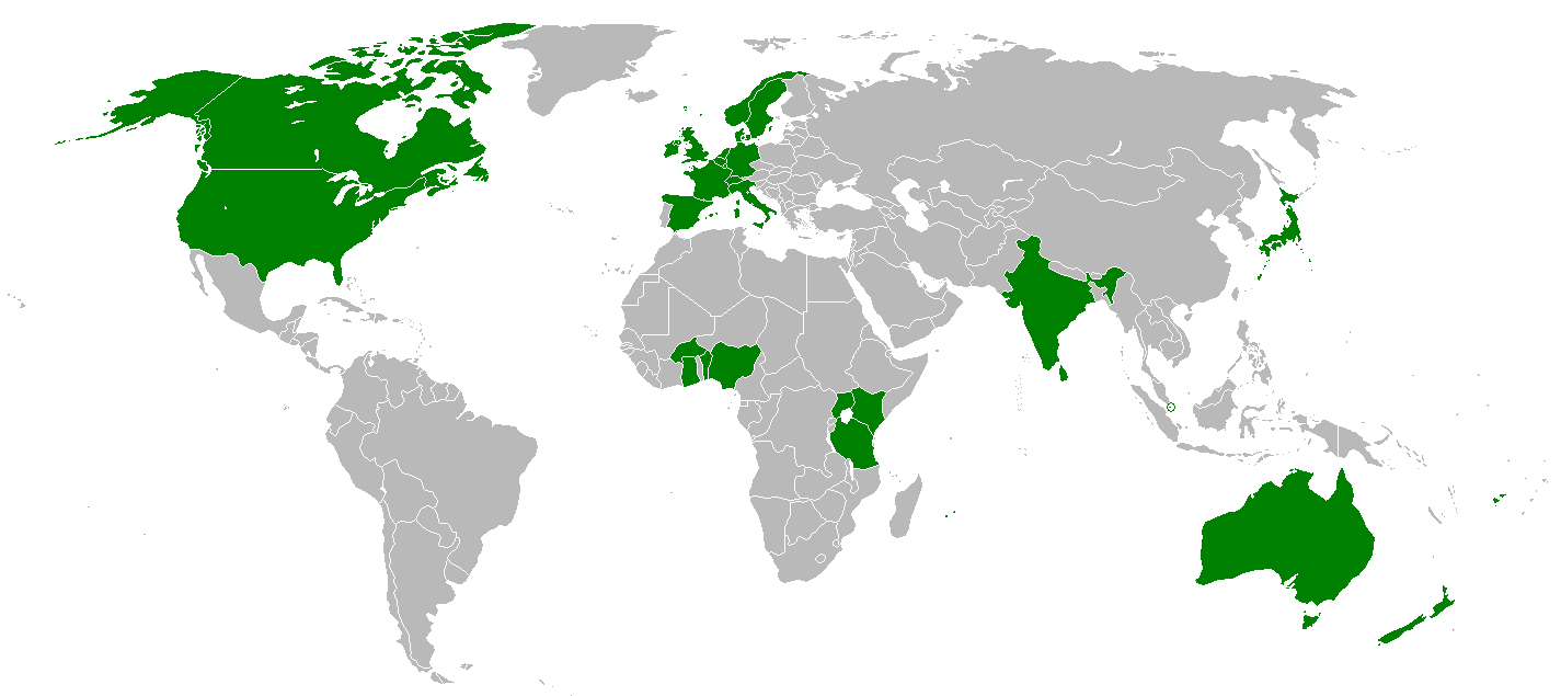 Hadhrat Mirza Masroor Ahmad's tours abroad as Khalifat ul-Massih